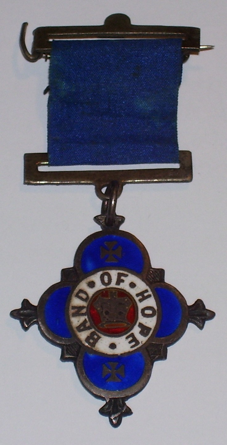 Medallion worn by members of the Christian temperance society known as the Band of Hope.